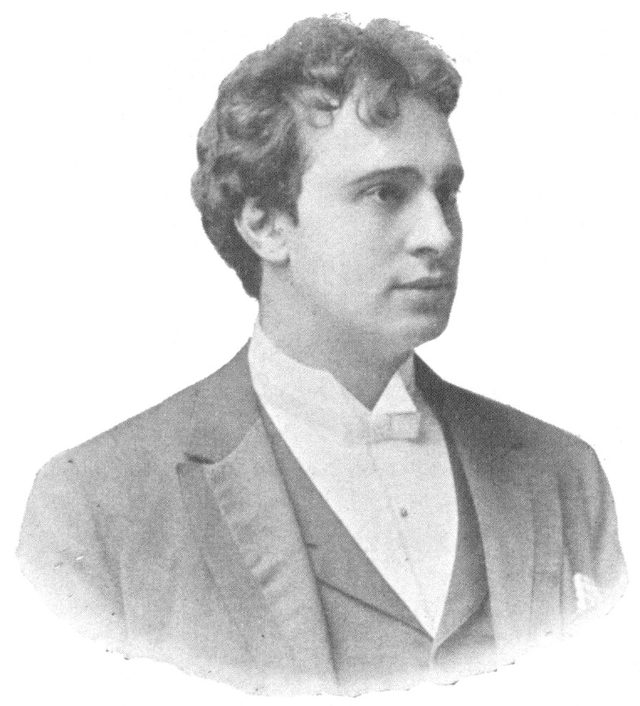 Viktor Kutschera (1863–1933), Austrian actor and director.